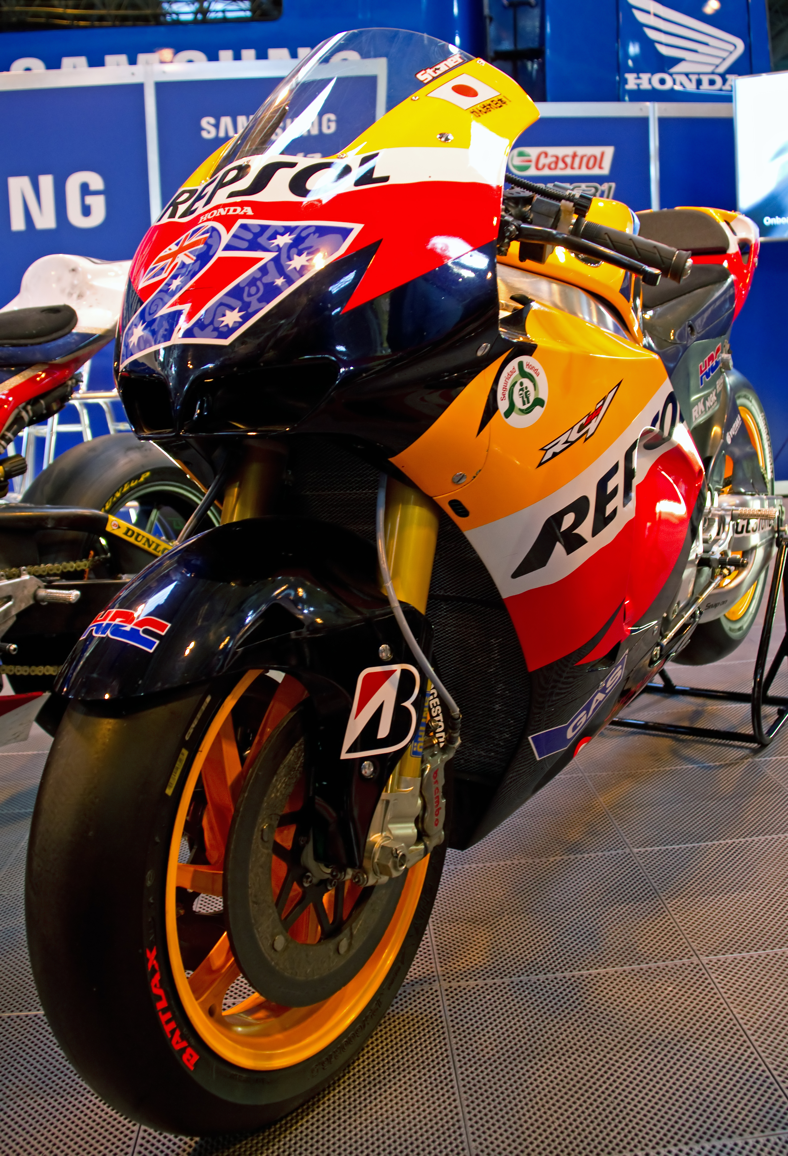 Casey Stoner Repsol Honda